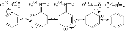 Aromatic electrophilic substitution - meta direction